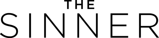 Logo for the American TV series The Sinner.